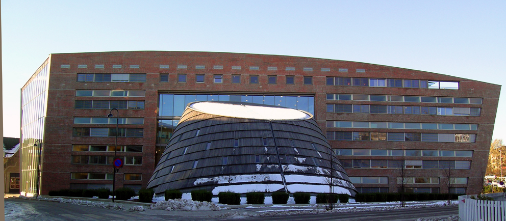 Hamar town hall.